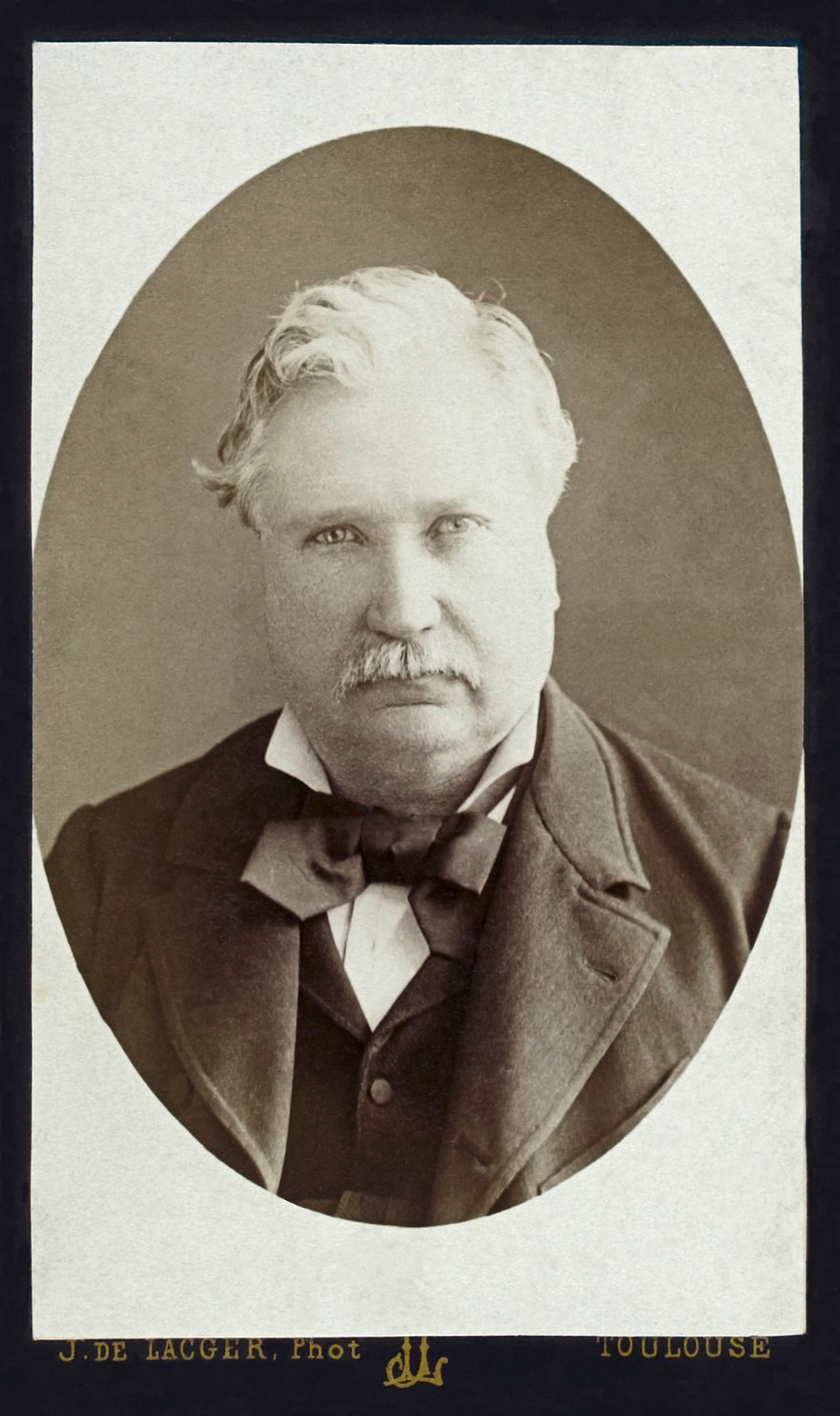 Benjamin Balansa – Botanist, by Jules Lacger in 1885.» Source: Library and Documentation Service Museum of Toulouse